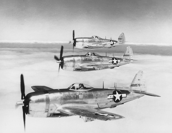 Three U.S. Army Air Forces Republic P-47N-5 Thunderbolts (s/n 44-88576, 44-88589, 44-88577) in flight.